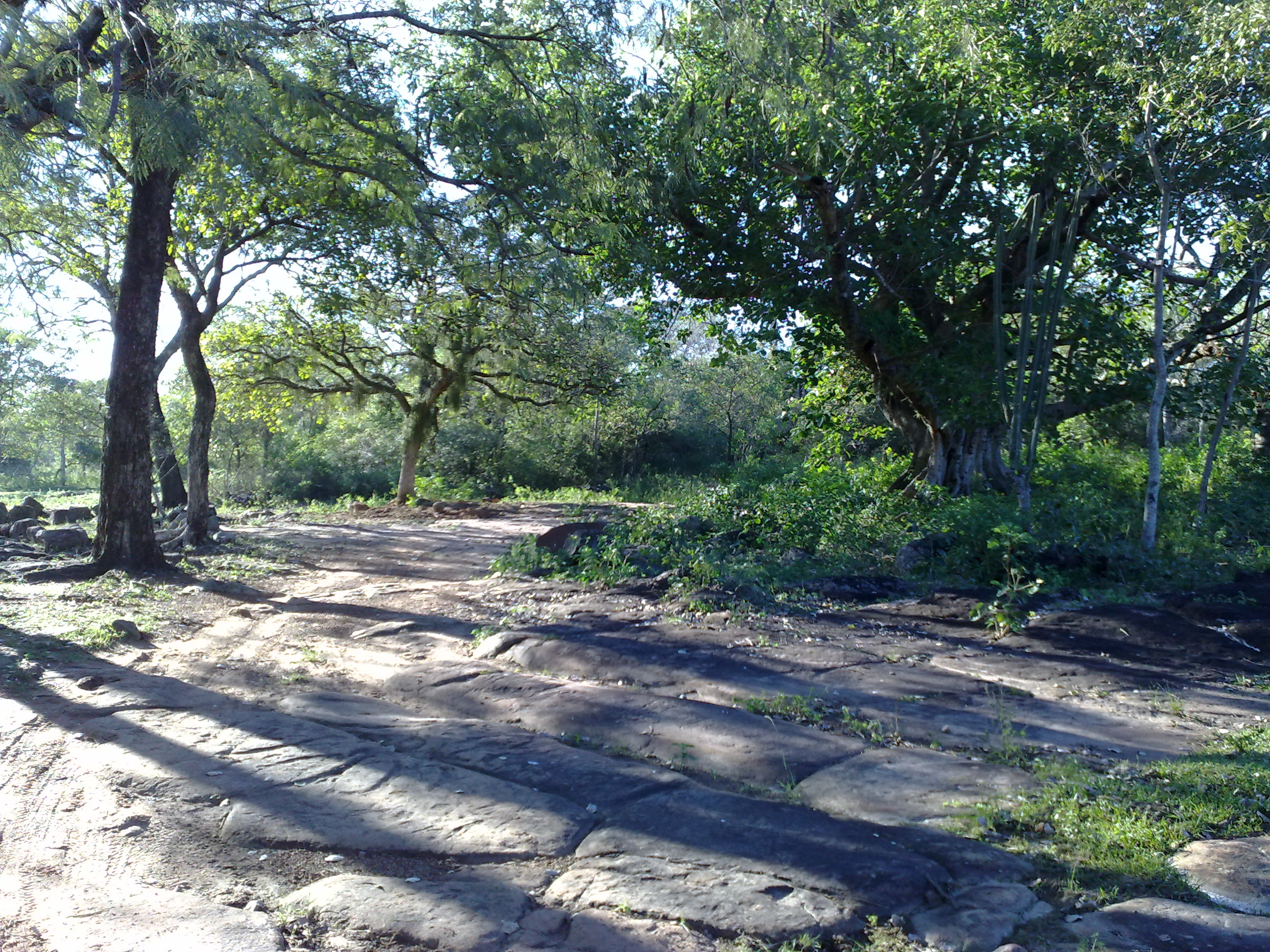 Entrance with stones